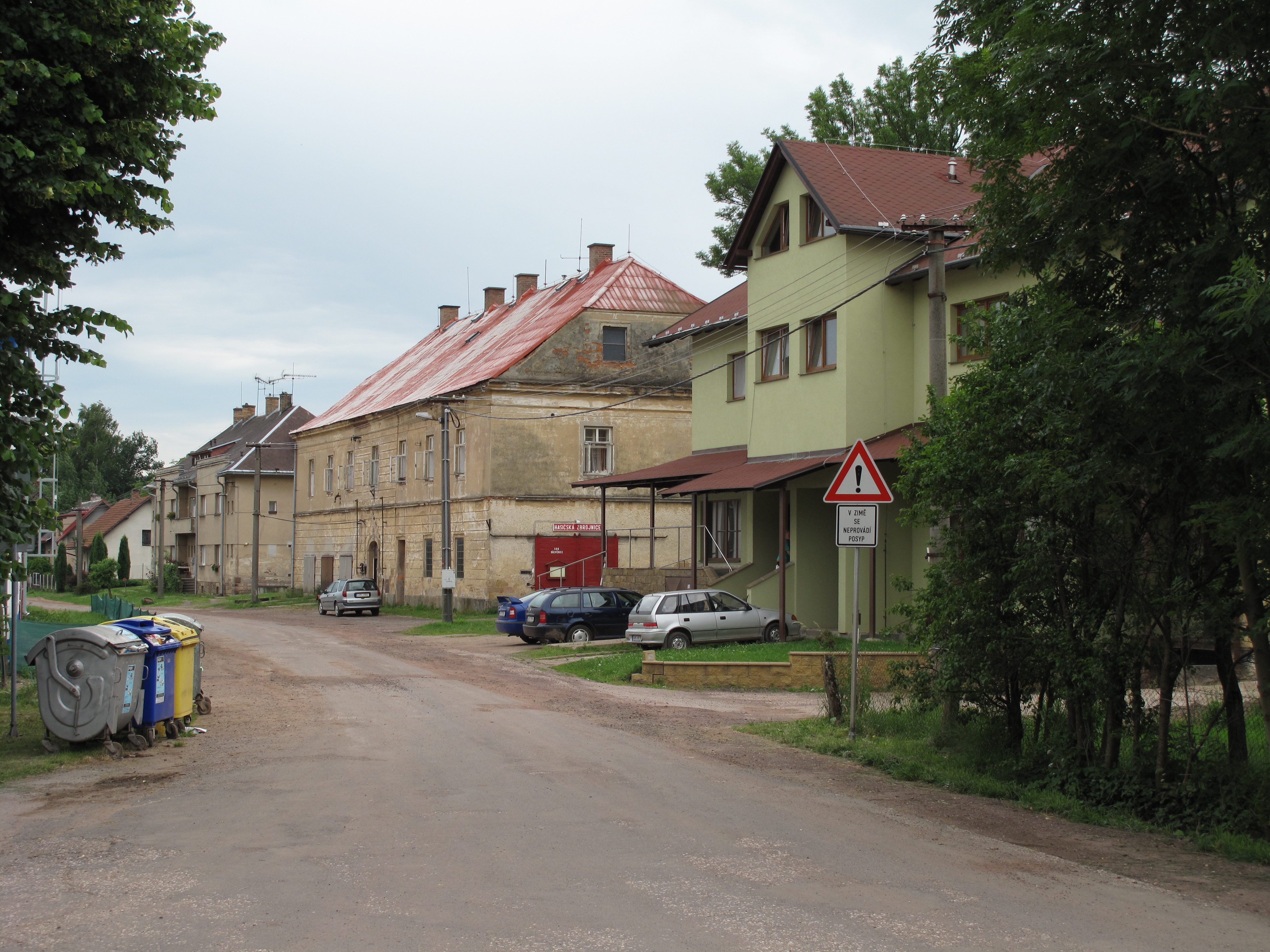 Newer houses in Dřevěnice village, Jičín District, Czech Republic.